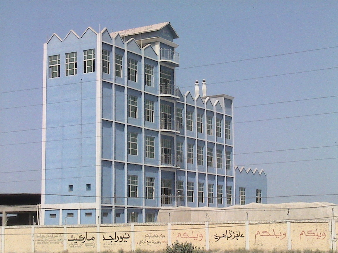 Raja Flour Mill, Ghotki